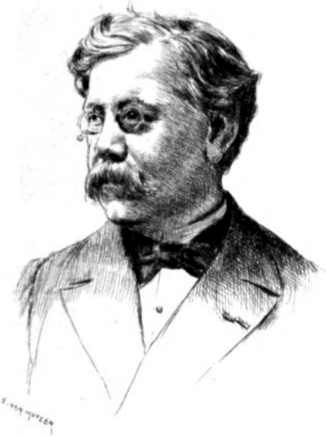 Paul Burani (1845-1901), French journalist, actor, playwright and songwriter